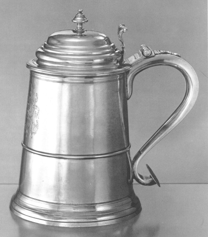 Tankard, c 1745 Yale University 13 h: 8 1/4" d: 5 7/16" (base) wt: 25 oz, 4 dwt Engraved on front with Moulton arms, "M over I H" on handle, and a map of Louisburg, Taken by the English / June 17, 1745 on handle terminal. By tradition, given to Jeremiah Moulton by Sir William Pepperell for his part in the capture of Louisburg.